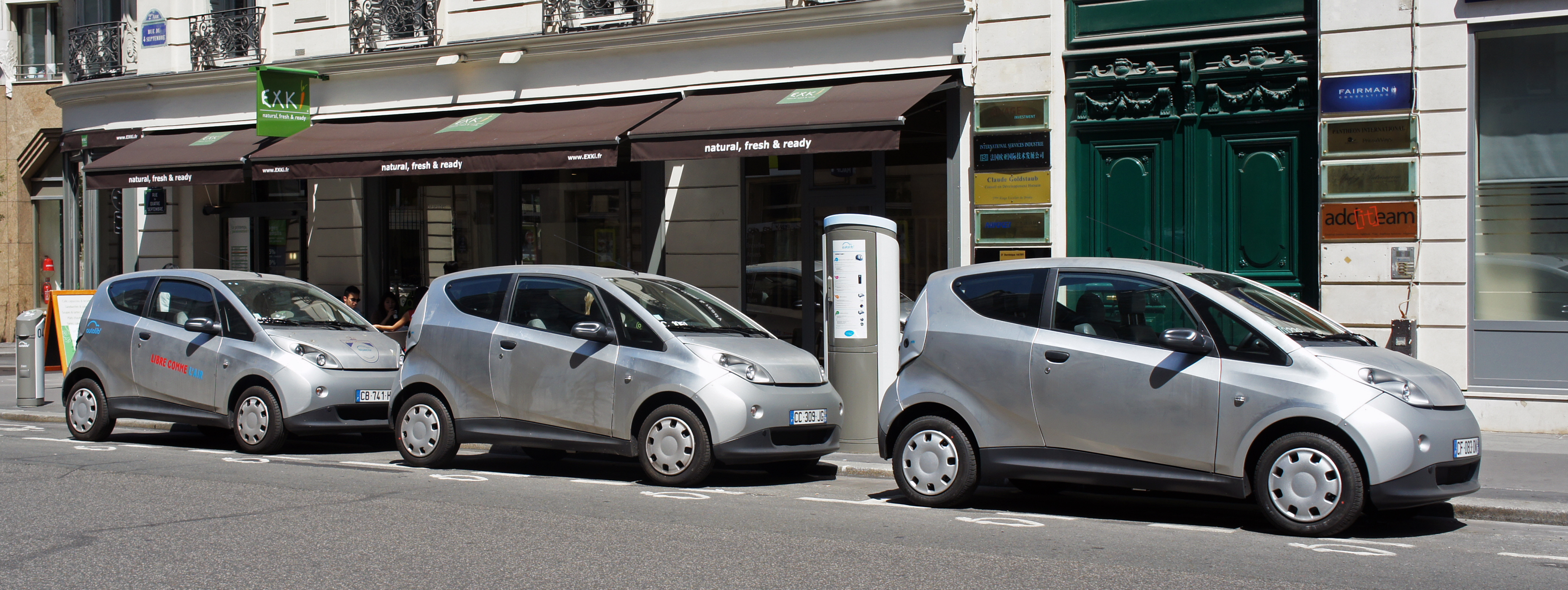 Bolloré Bluecasr recharging at an Autolib' carsharing service kiosk on Rue du Quatre Septembre in Paris.